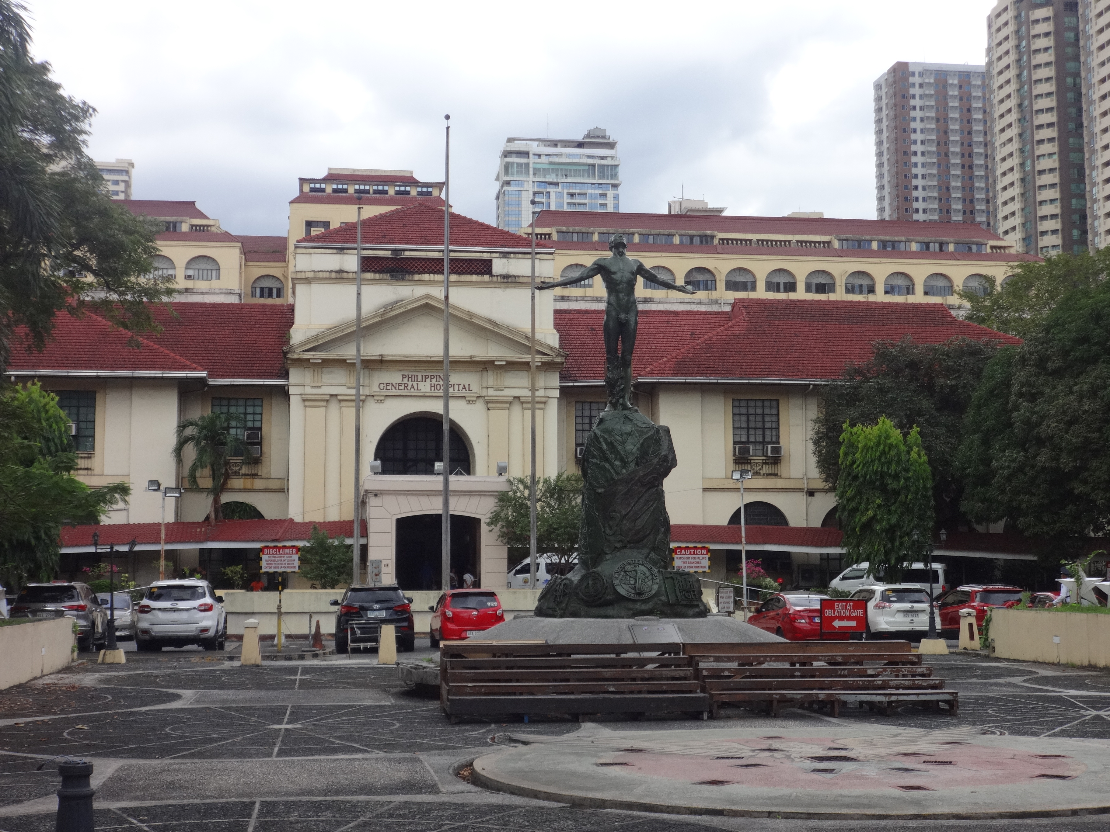 Philippine General Hospital along Taft Avenue, Manila